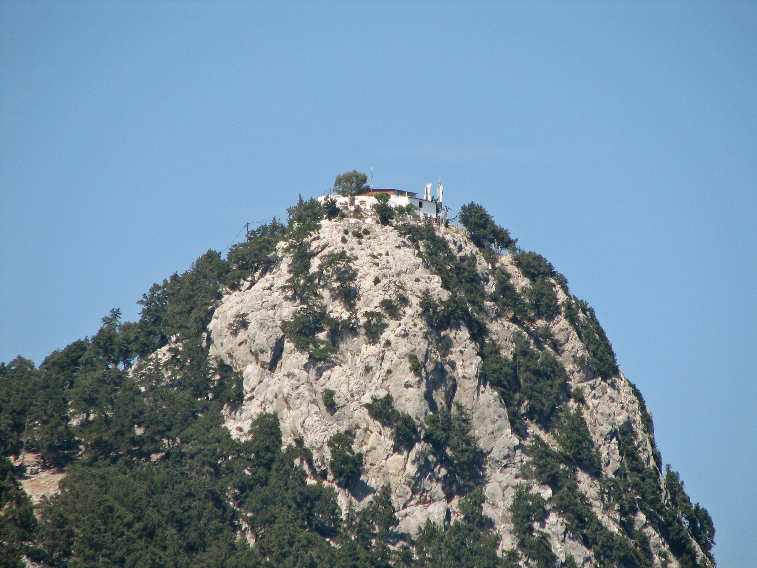 Tsambika monastery, Rhodes, Greece